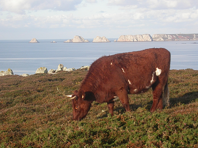 Armorican cattle